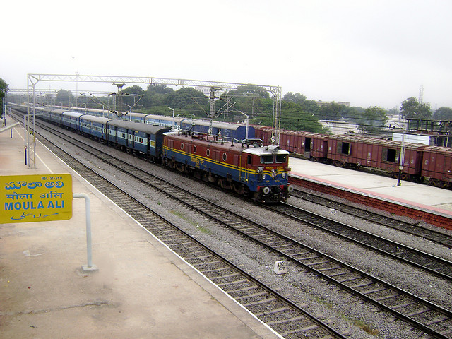 VSKP - Nanded Express at Moulaali, Hyderabad